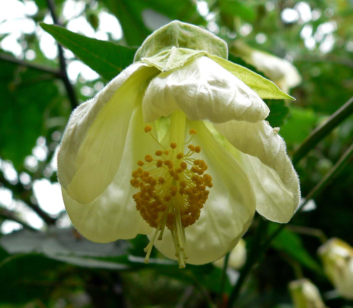 Photo of Abutilon 'Patricia' at the San Francisco Botanical Garden